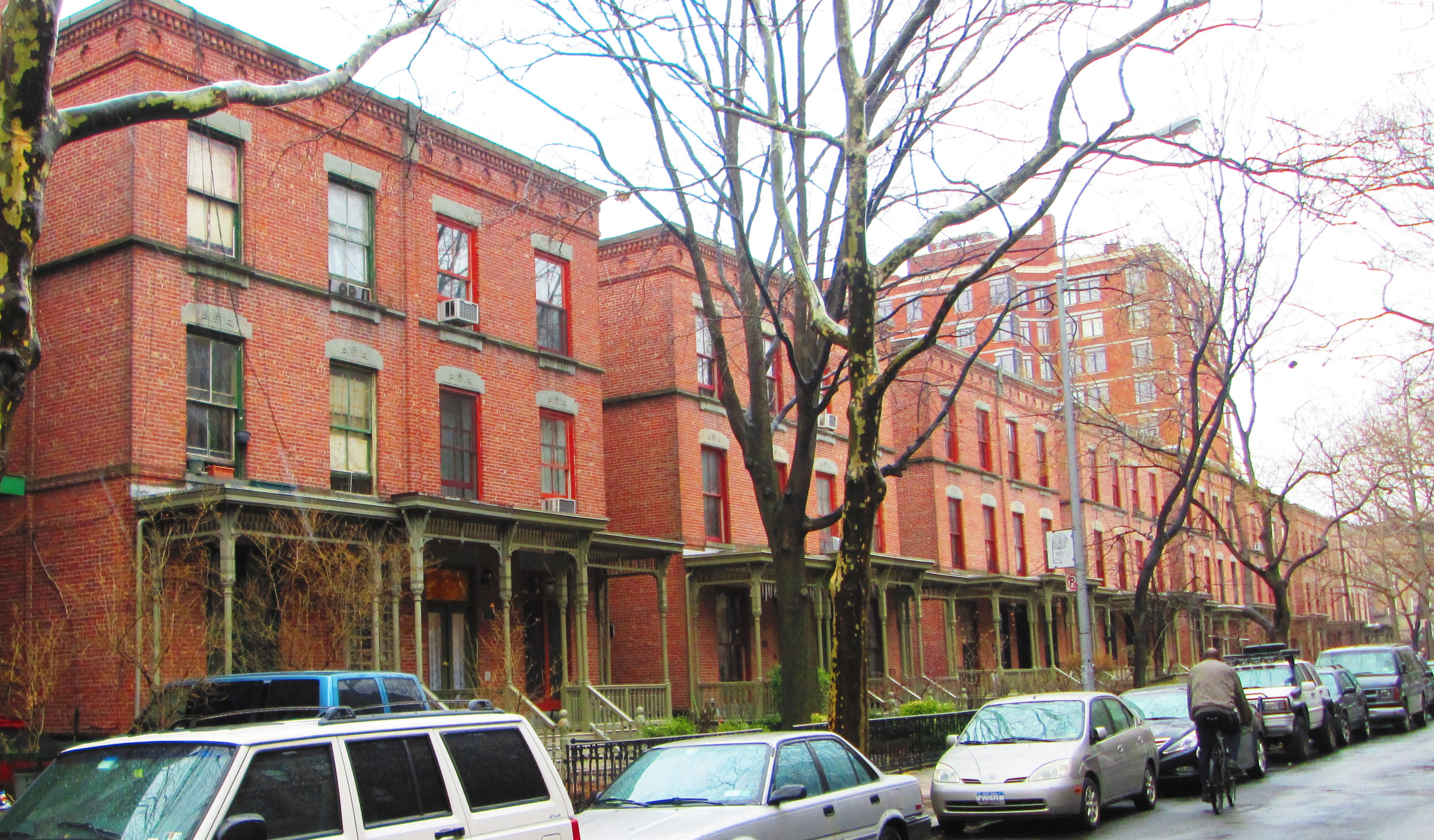 Astor Row is the name given to 28 row houses on the south side of West 130th Street between Fifth and Lenox Avenues in the Harlem neighborhood of Manhattan, New York City, which were among the first speculative townhouses built in the area. Designed by Charles Buek, the houses were built between 1880 and 1883 in three spurts, on land purchased by John Jacob Astor. Astor's grandson, William Backhouse Astor, Jr., was the driving force behind the development.The three-story brick, single-family houses are set back from the street and all have front and side yards – an oddity in Manhattan – as well as wooden porches. The first group of houses, numbers 8 through 22, are freestanding pairs, while the remainder, numbers 24 through 60, are connected together at the rear. (Sources: Guide to NYC Landmarks (4th ed.) and AIA Guide to NYC (5th ed.))